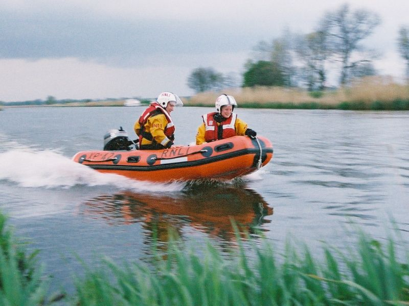 XP Class Lifeboat at Speed RNLI XP-42 Photo by Scott Snowling